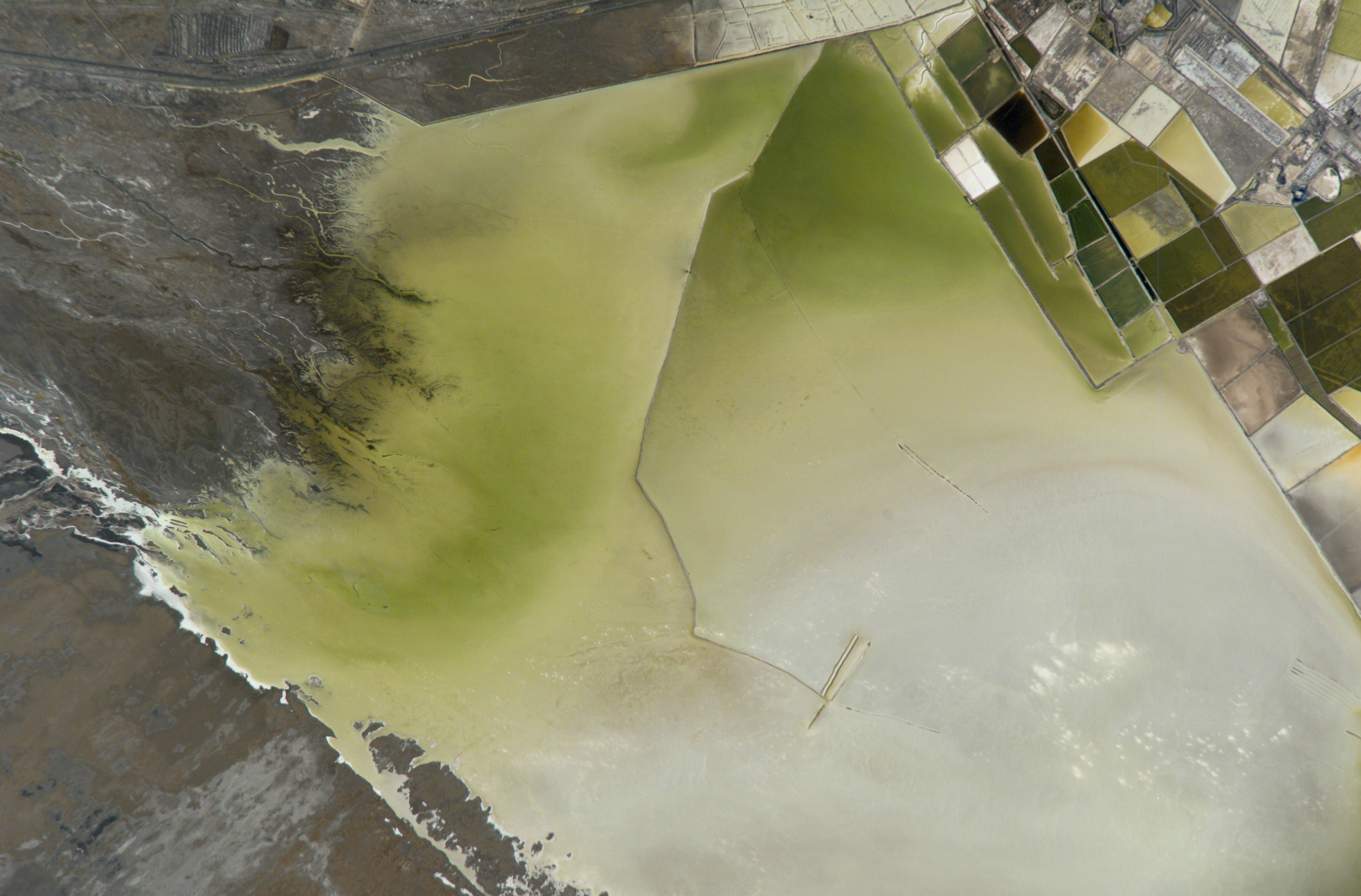 ISS016-E-9369: A photograph from the International Space Station of the salt pans collecting minerals from the waters of Tuanjie Lake, Golmud County, Haixi Prefecture, Qinghai Province, China.Misidentified by NASA as North Hulsan Lake.